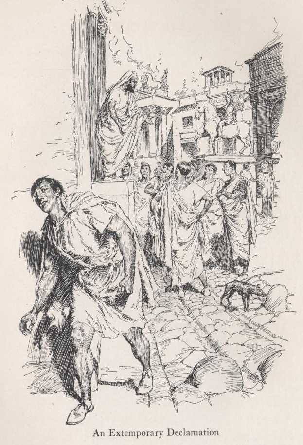 Illustration by Norman Lindsay for Petronius Arbiter's Satyricon